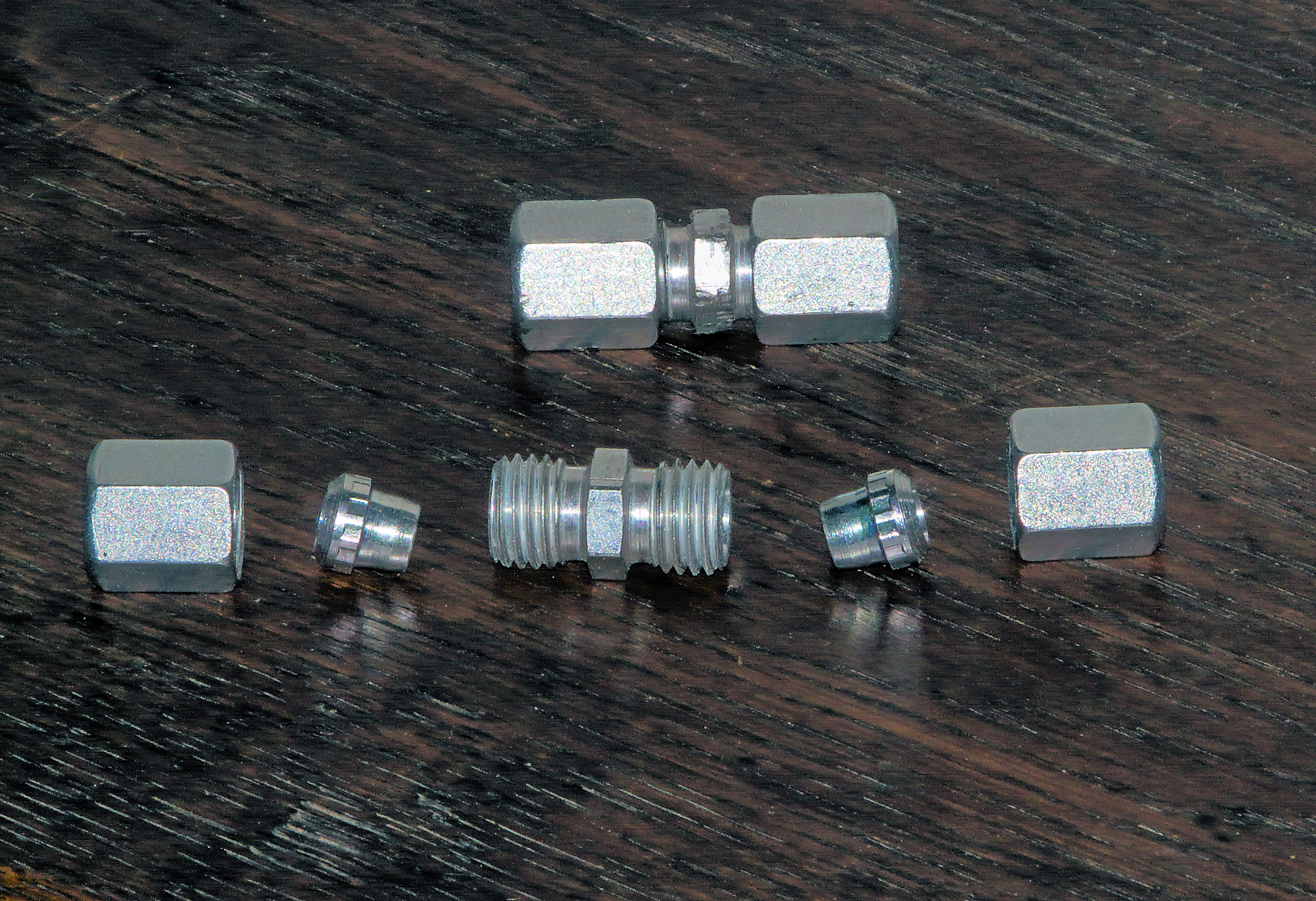 Compression fitting for hydraulic brake lines (6 mm)